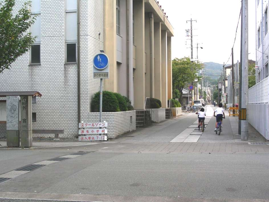 Kamiji-dori is a street between the betsugu Tsukiyomi-no-miya Sanctuary of Toyoukedaijingu (Geku) and Geku in Ise city, Mie Prf., Japan.